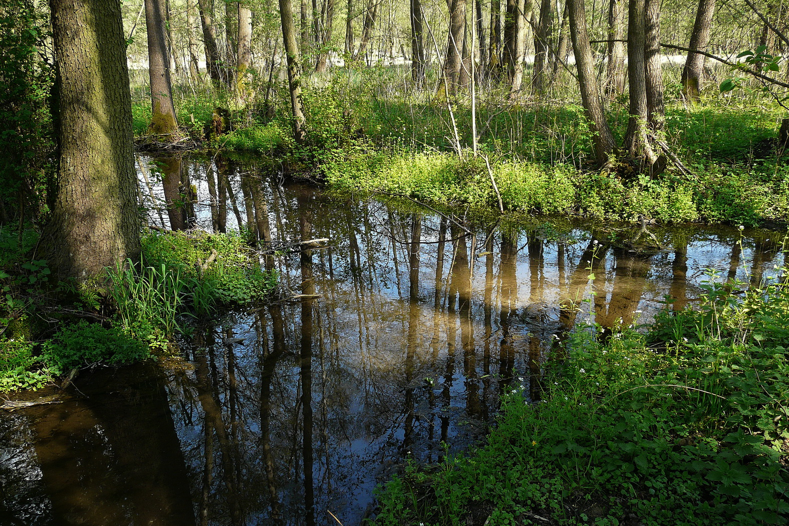 Zábrdka and Mukařovský stream junction